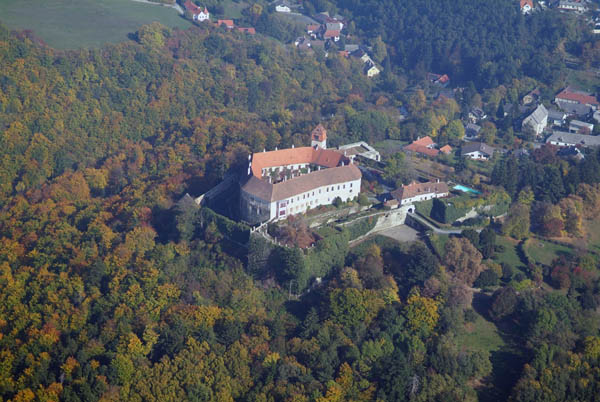 Borostyánkő (Bernstein), Austria, aerial photography